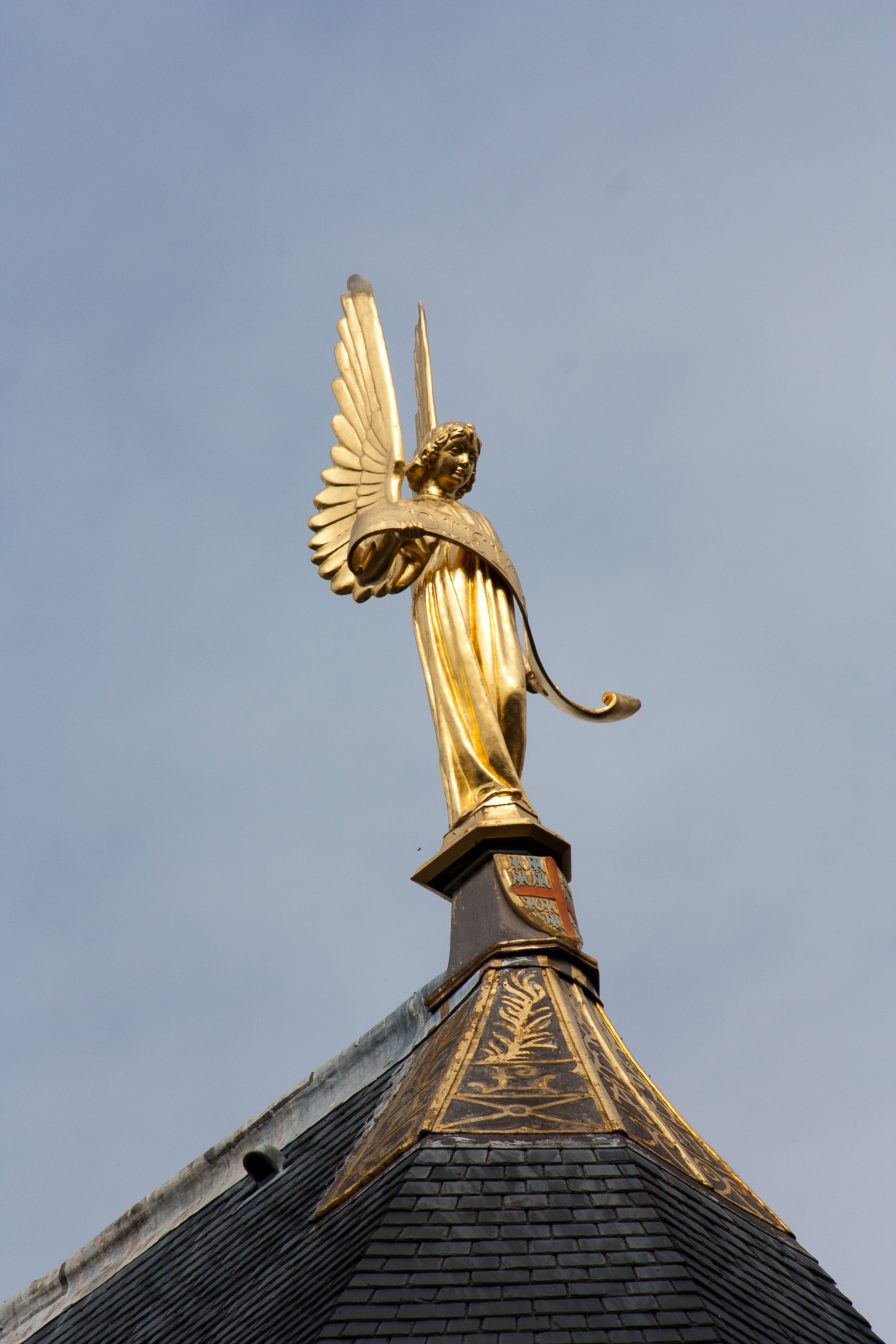 Statue of the ridge of the choir, plumb to the altar : Archangel Saint Mickael whose phylatère is marked : Deus est ... (hic?)